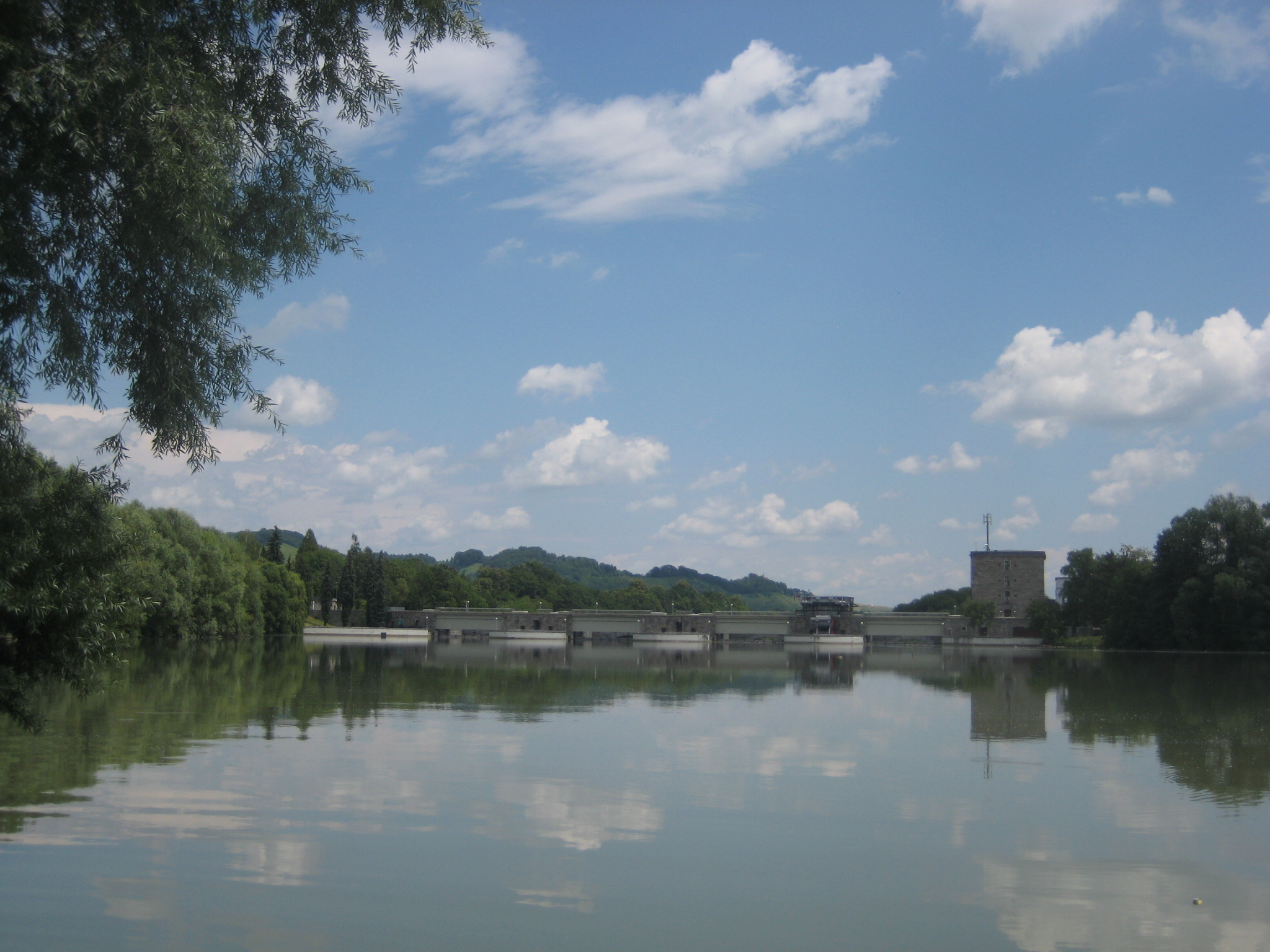 Mariborski otok hydro-power plant, Slovenia